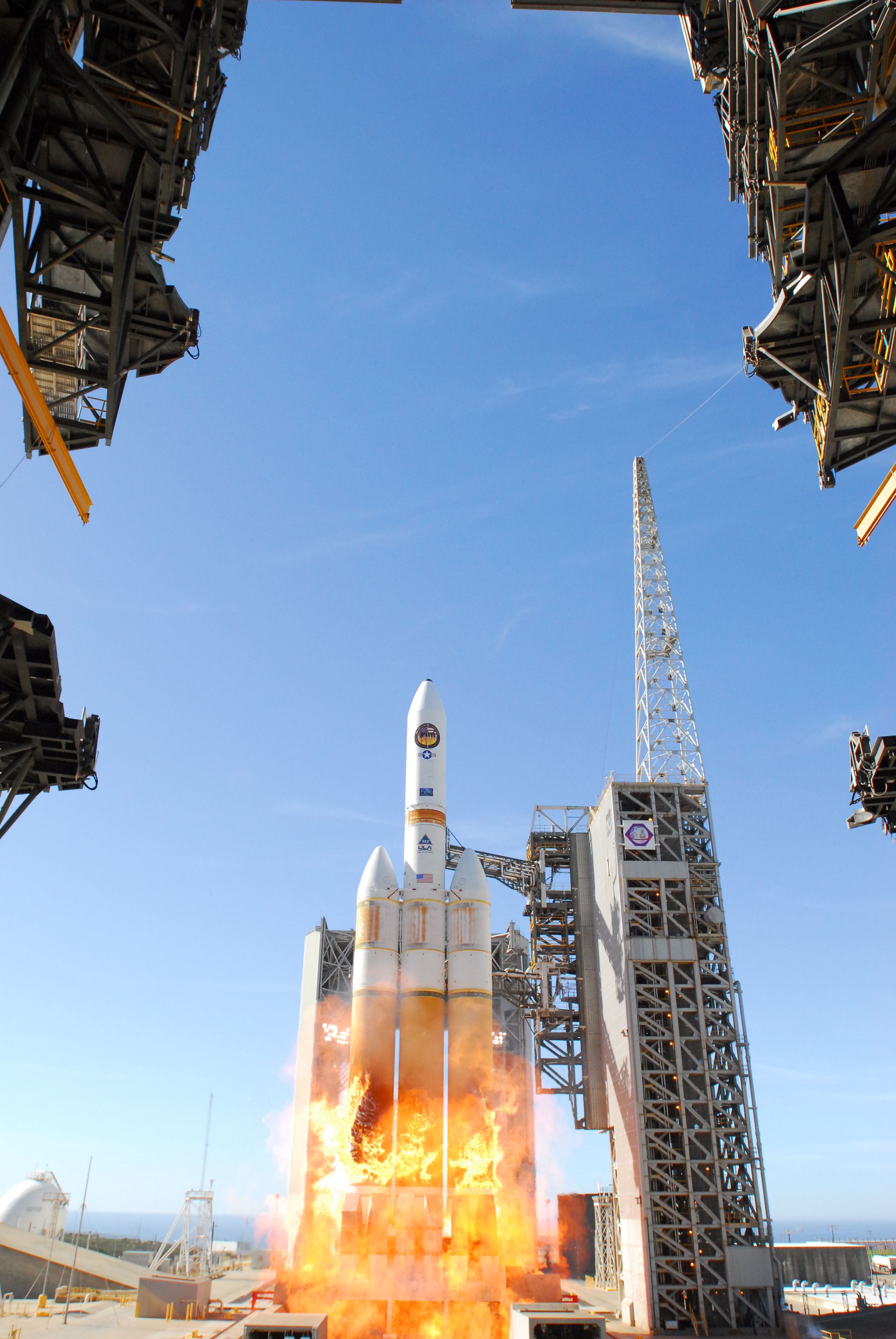 Orginal caption released with the picture: First Delta IV Heavy launches from Vandenberg VANDENBERG AIR FORCE BASE, Calif. - The first West Coast Delta IV Heavy Launch Vehicle was launched from Space Launch Complex-6 here Jan. 20 at 1:10 p.m. PST.